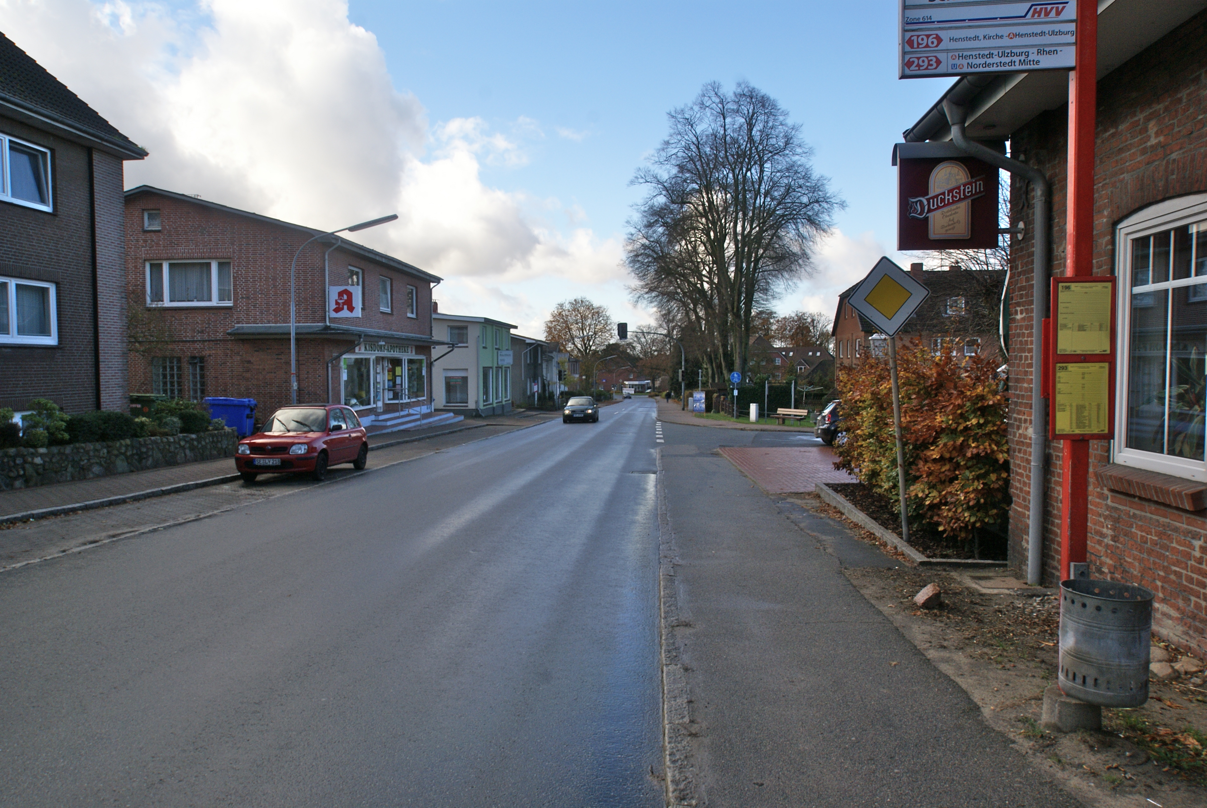 Kisdorf, Germany: High Street